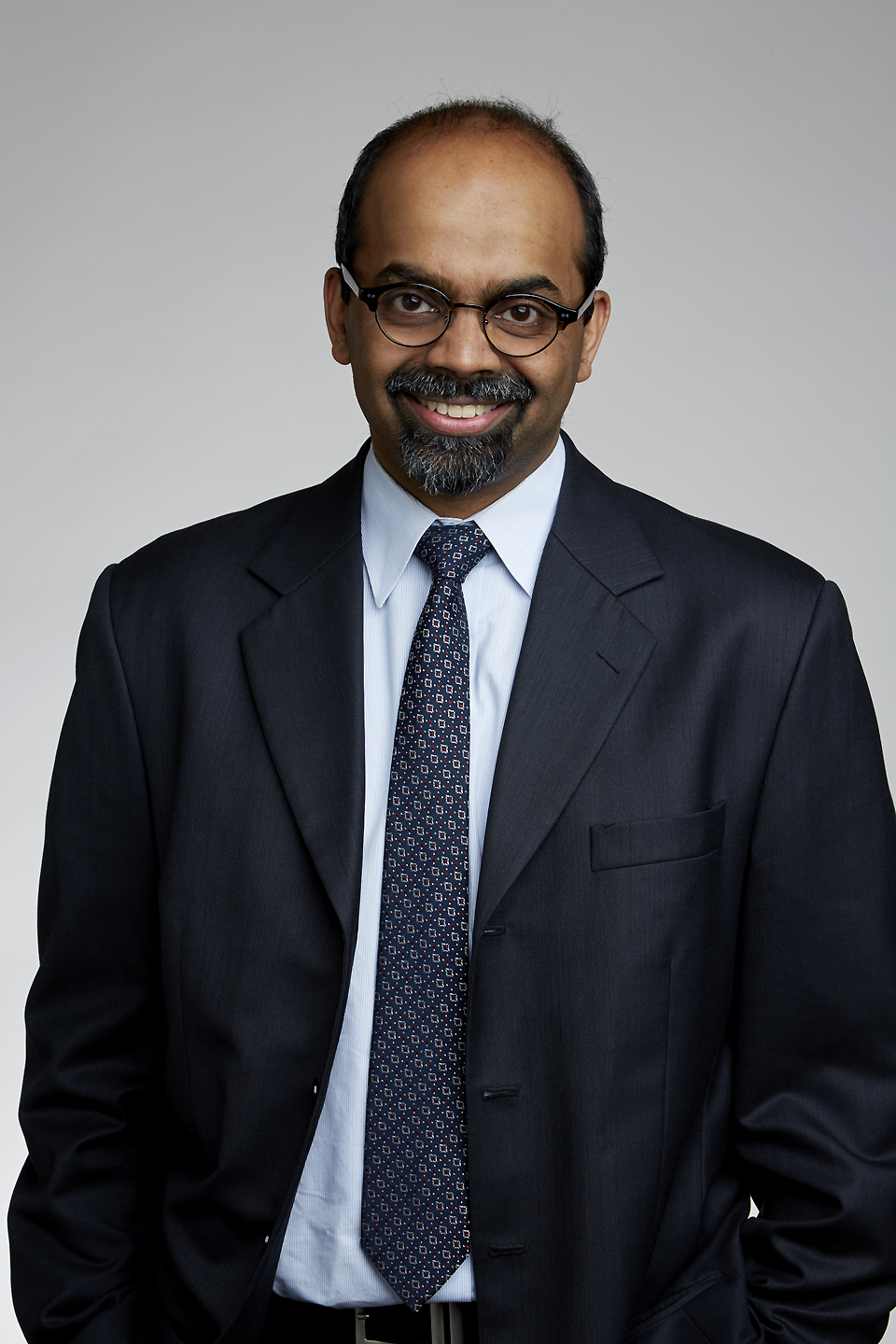 Lakshminarayanan Mahadevan FRS is a mathematician and scientist of Indian origin, and is currently the Lola England de Valpine Professor of Applied Mathematics, Organismic and Evolutionary Biology and Physics at Harvard University. His work centers around using mathematics to understand the organization of matter in space and time, i.e. how it is shaped and how it flows, particularly at the scale observable by the unaided senses. Attribution: The Royal Society